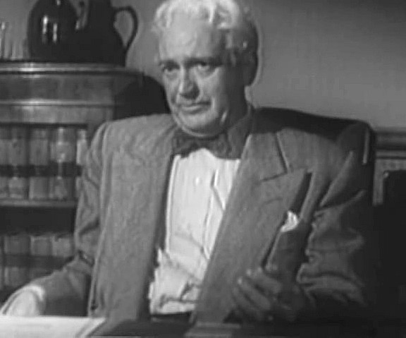 Raymond Greenleaf in Port of New York (cropped screenshot)